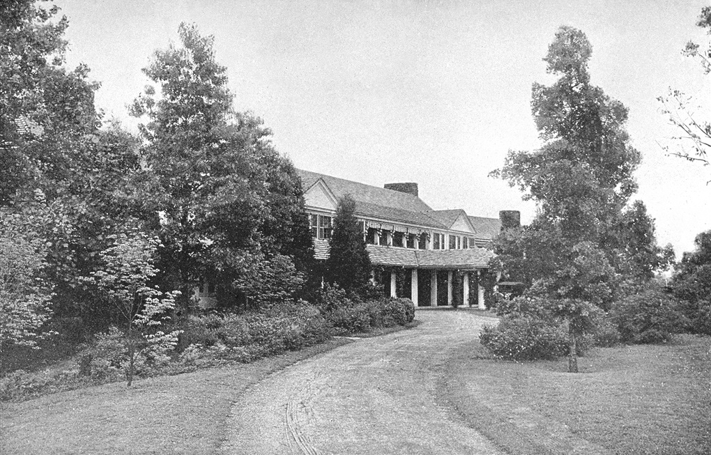 View of Reynolda House, estate built by tobacco entrepreneur R. J. Reynolds in Winston-Salem, North Carolina. The home was constructed between 1906 and 1917. Courtesy of the Frances Loeb Library, Graduate School of Design, Harvard University. Image courtesy of .